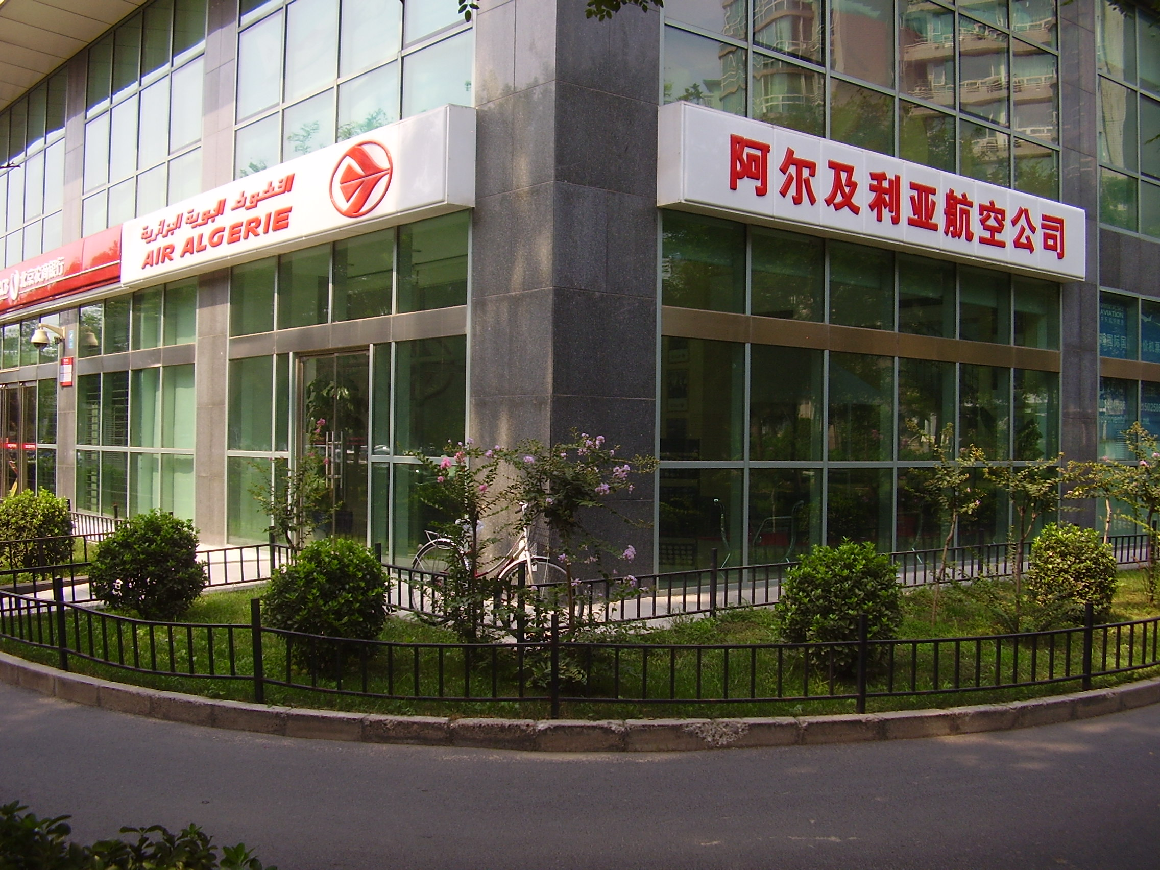 Air Algérie Beijing offices - Tower A, Kunsha Center (琨莎中心 Kūnshā Zhōngxīn), 16 Xinyuanli, Chaoyang District, Beijing 100027